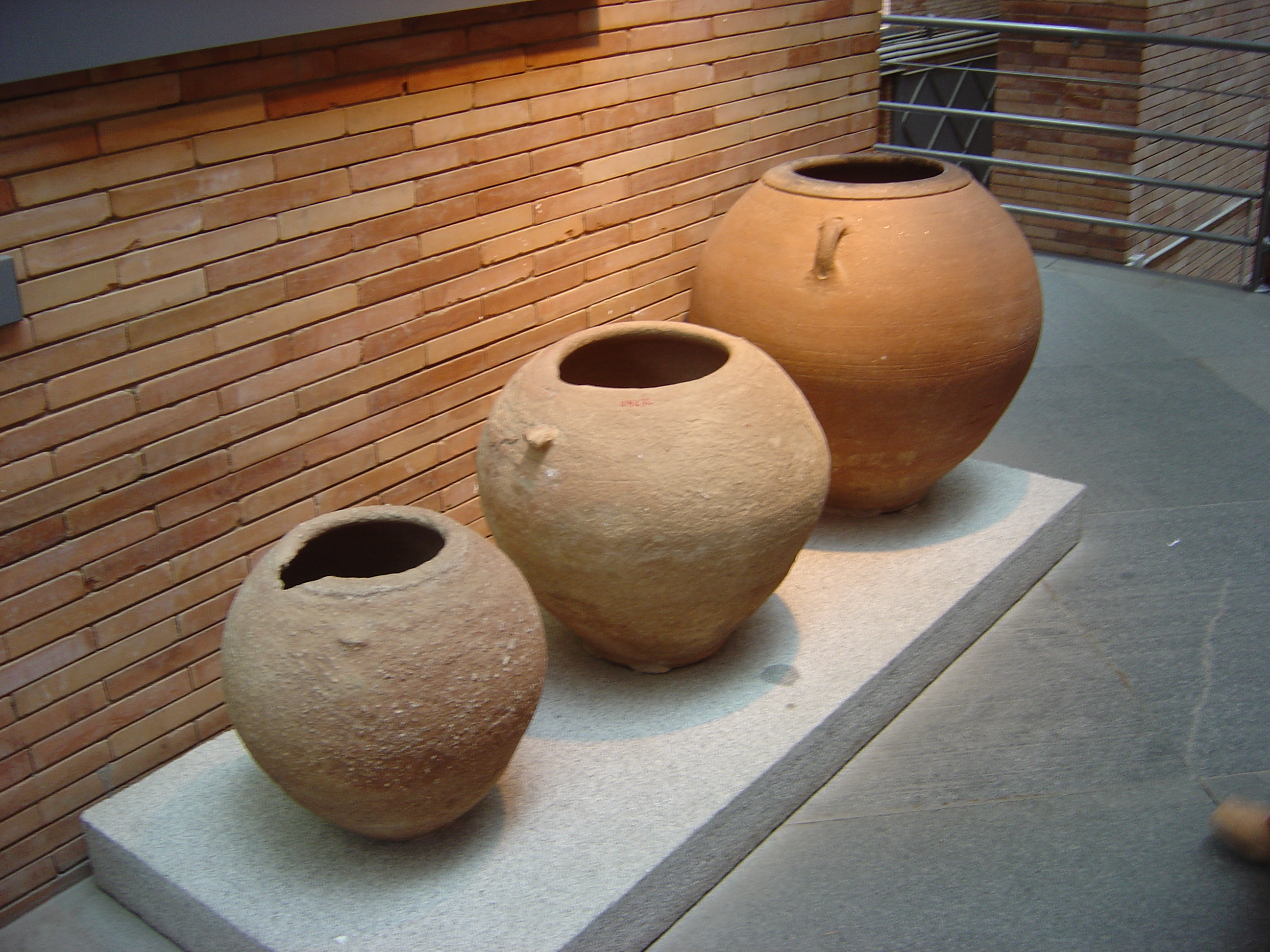 Roman dolia of different sizes.